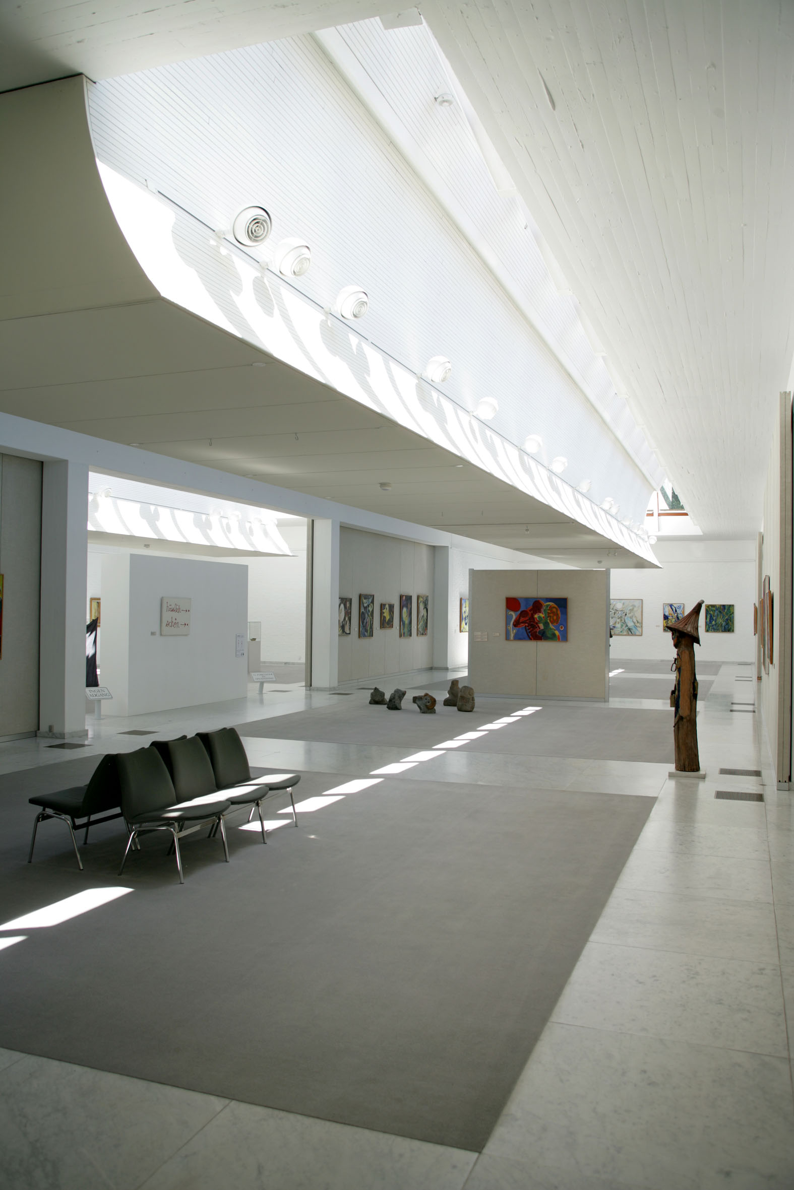 KUNSTEN Museum of Modern Art, Aalborg, Denmark. Designed by Elissa and Alvar Aalto and Jean-Jacques Baruel (1968-72).